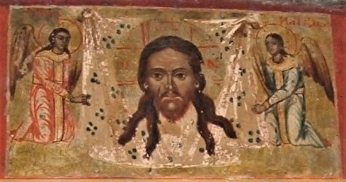 Argir_Mihaylov_Icon in Saint Mary Church in Starichani Lakkomata